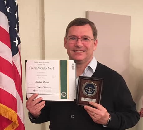 Micahel Dupee received the Boy Scout District Award of Merit on January 31, 2019.